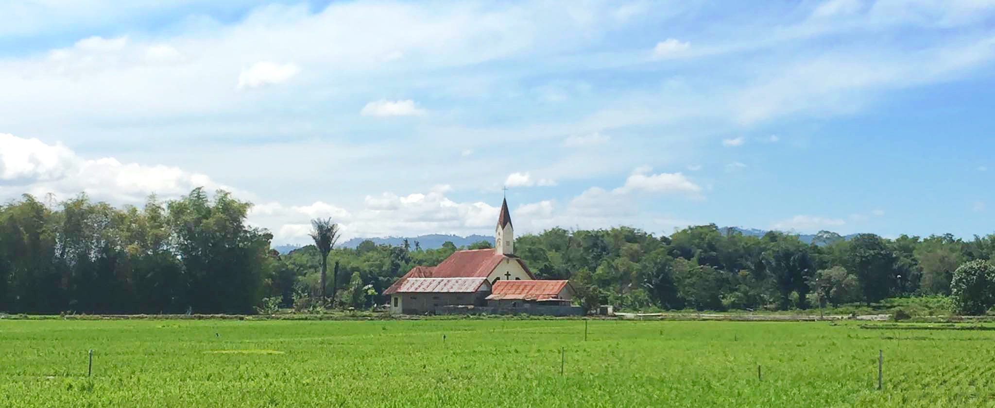 HKBP Nauli, Res. Nommensen Sigumpar church in Nauli, Sigumpar, Toba Samosir